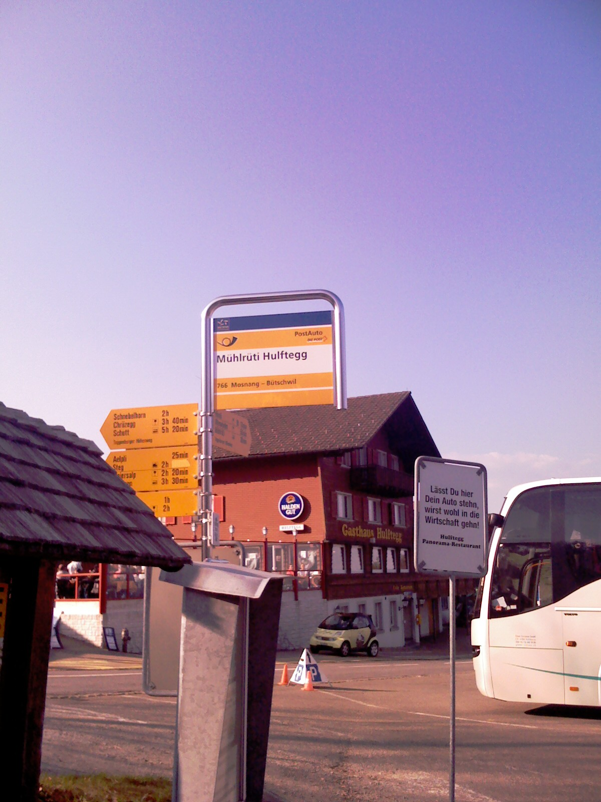 Hulfteggpass - postcar stop, canton of St. Gallen, Switzerland